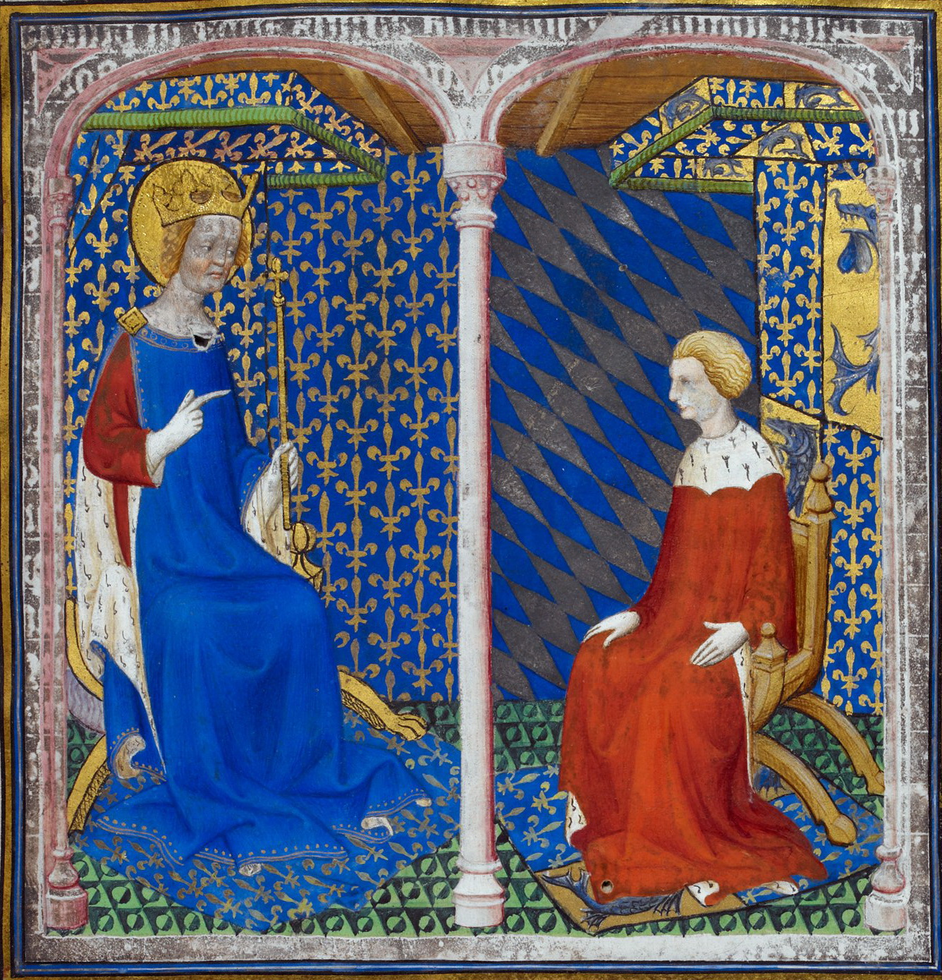 Louis of Guyenne (right), Dauphin of France, receiving instruction from Saint Louis (Louis IX of France, left), with the heraldic charges of France and Bavaria. British Library, Royal 13 B III f. 2